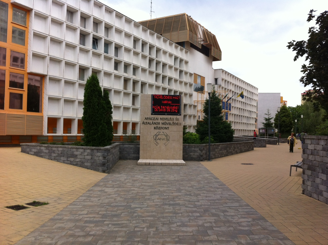 ANK Educational Center Building, Pecs, HungaryPécsi Apáczai Csere János Általános Iskola, Gimnázium, Kollégium, Alapfokú Művészeti Iskola H-7632 Pécs, Apáczai Csere János körtér 1 A ép.